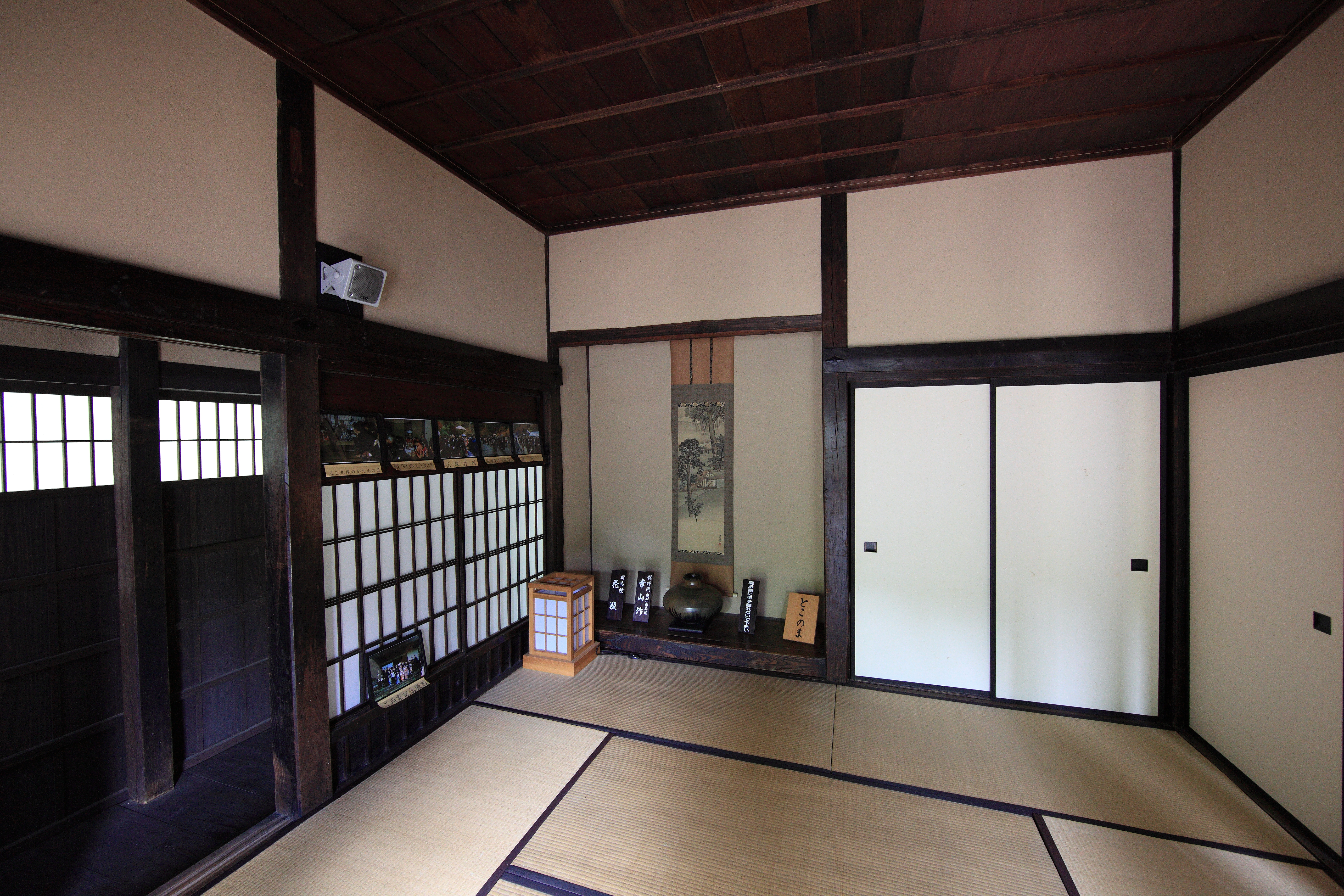 The alcove of Kendan Yashiki which is Shiroishi City designated tangible cultural property, in the Zaimokuiwa Park in Shiroishi, Miyagi.